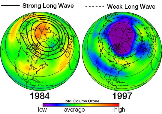 Ozone Depletion comparison in North America from 1984-1997. Contrary to popular belief, the ozone depletion does not affect exclusively the south pole.